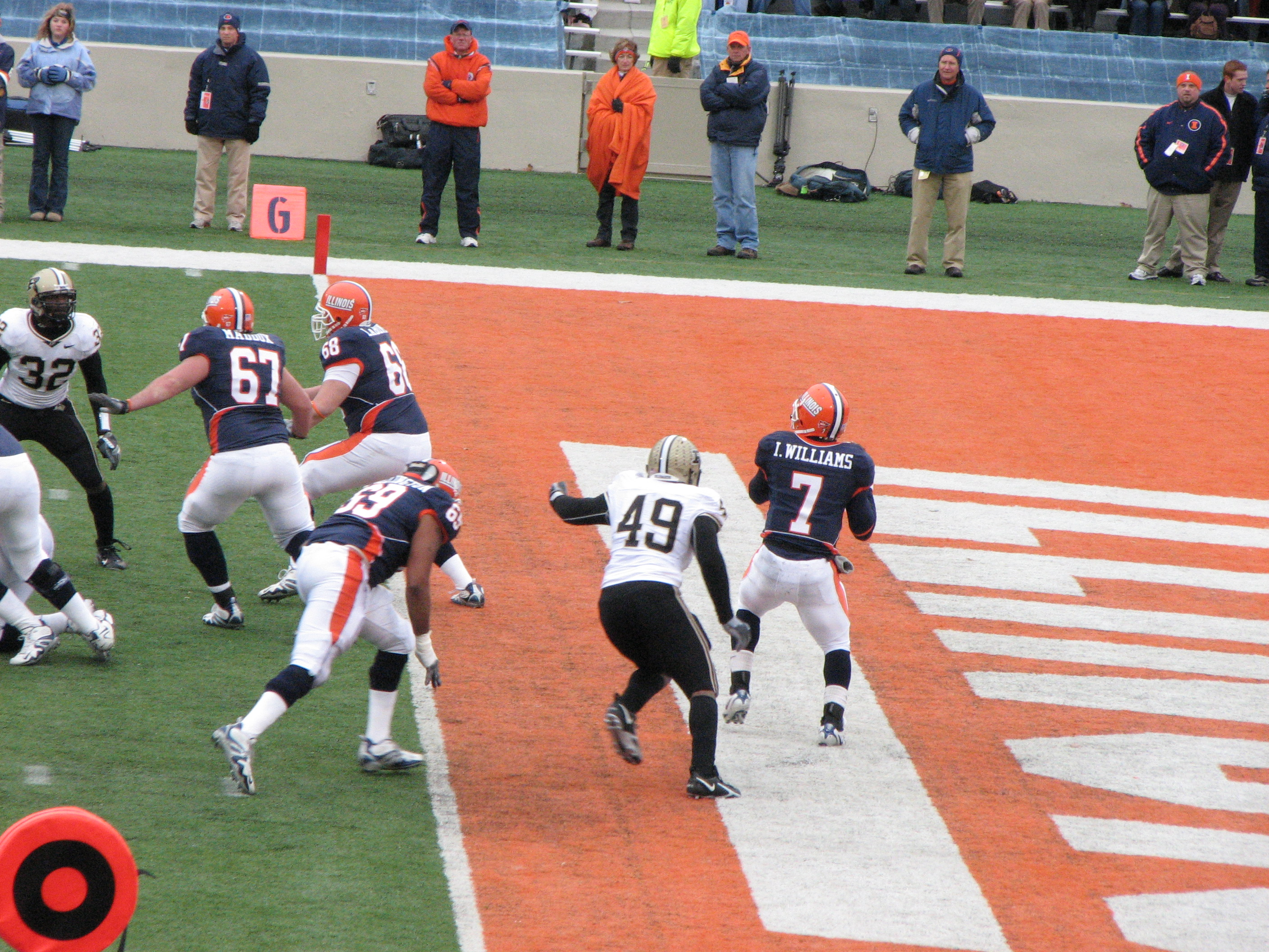 Juice Williams, Illinois QB #7 about to get sacked in the end zone by Anthony Spencer of Purdue on November 11, 2006.